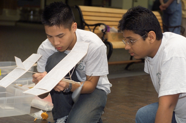 The first annual Gulf Coast Regional Science Olympiad, supported by NASA Johnson Space Center, Houston TX. It was held on Jan.31, 2004 at the University of Houston. Middle school and high school students were challenged to demonstrate their knowledge in a variety of science disciplines. The regional winners will be competing at the State level. Winners of the state tournament will join the winners from all 50 states to compete at the National Science Olympiad.